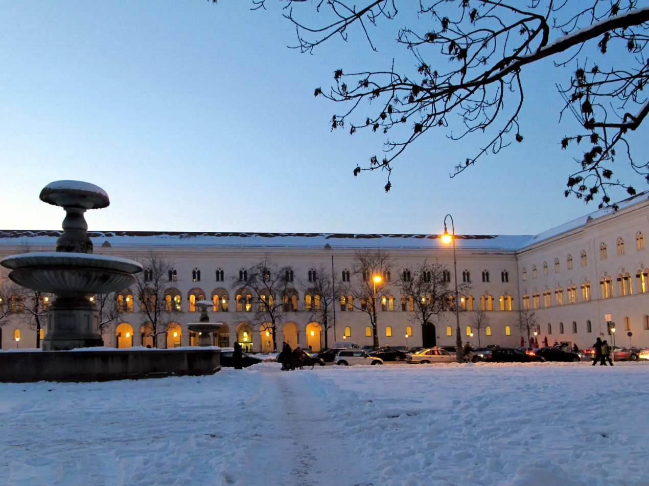 Munich, Street "Ludwigstraße", University